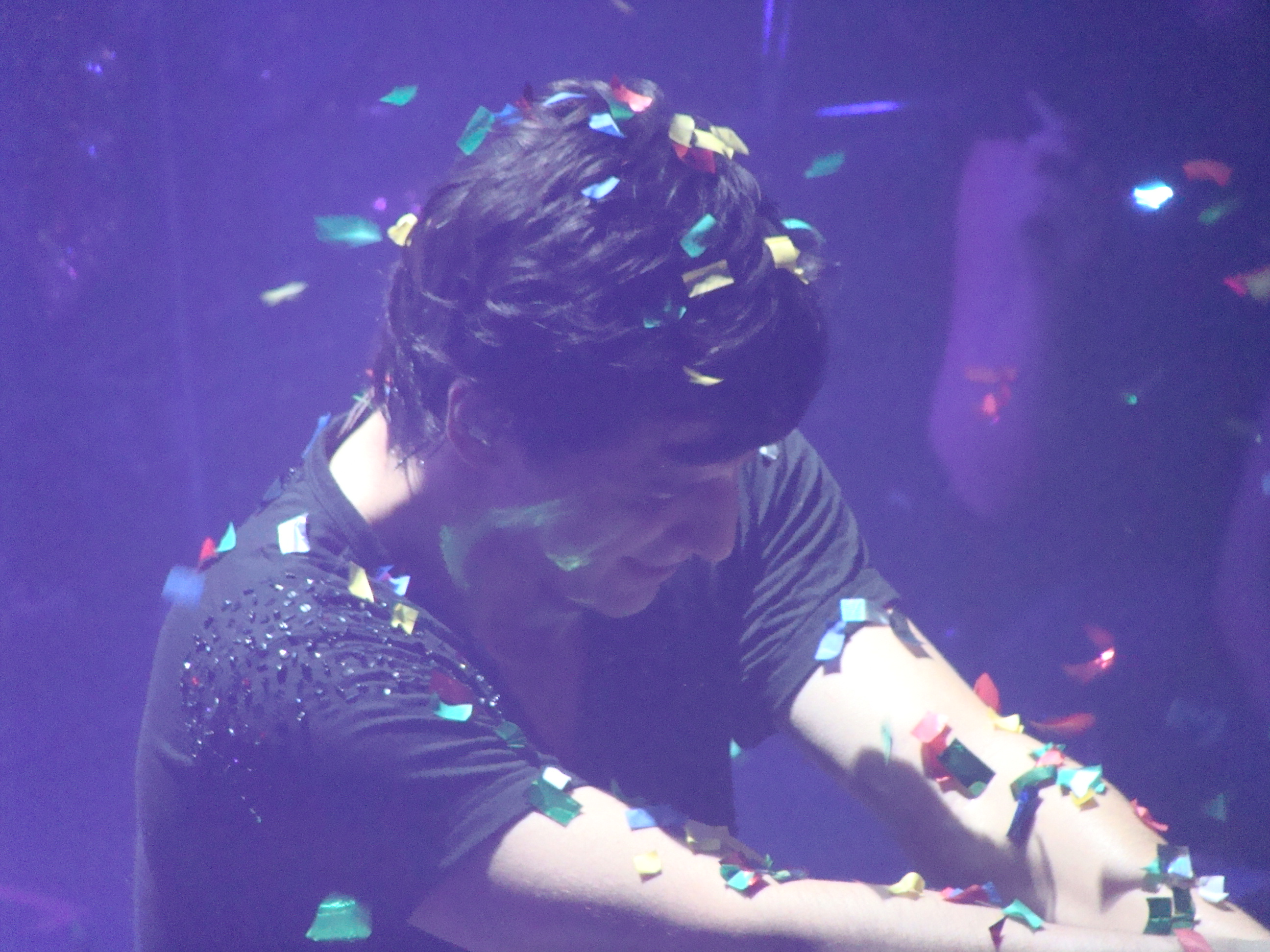 Sakis Rouvas performing "Irthes" at his STARZ concert series